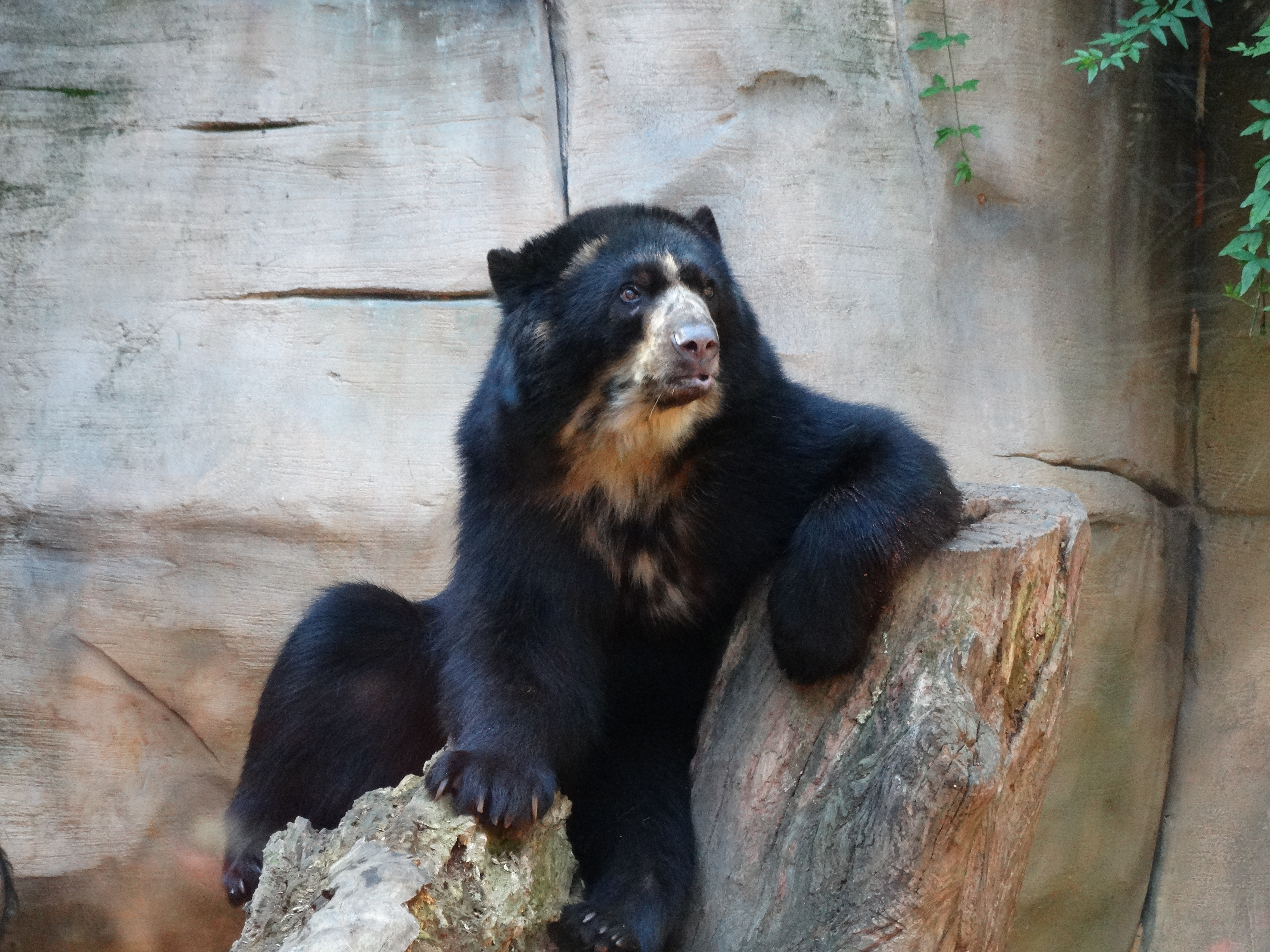 Spectacled bear at Sorocaba Zoo.